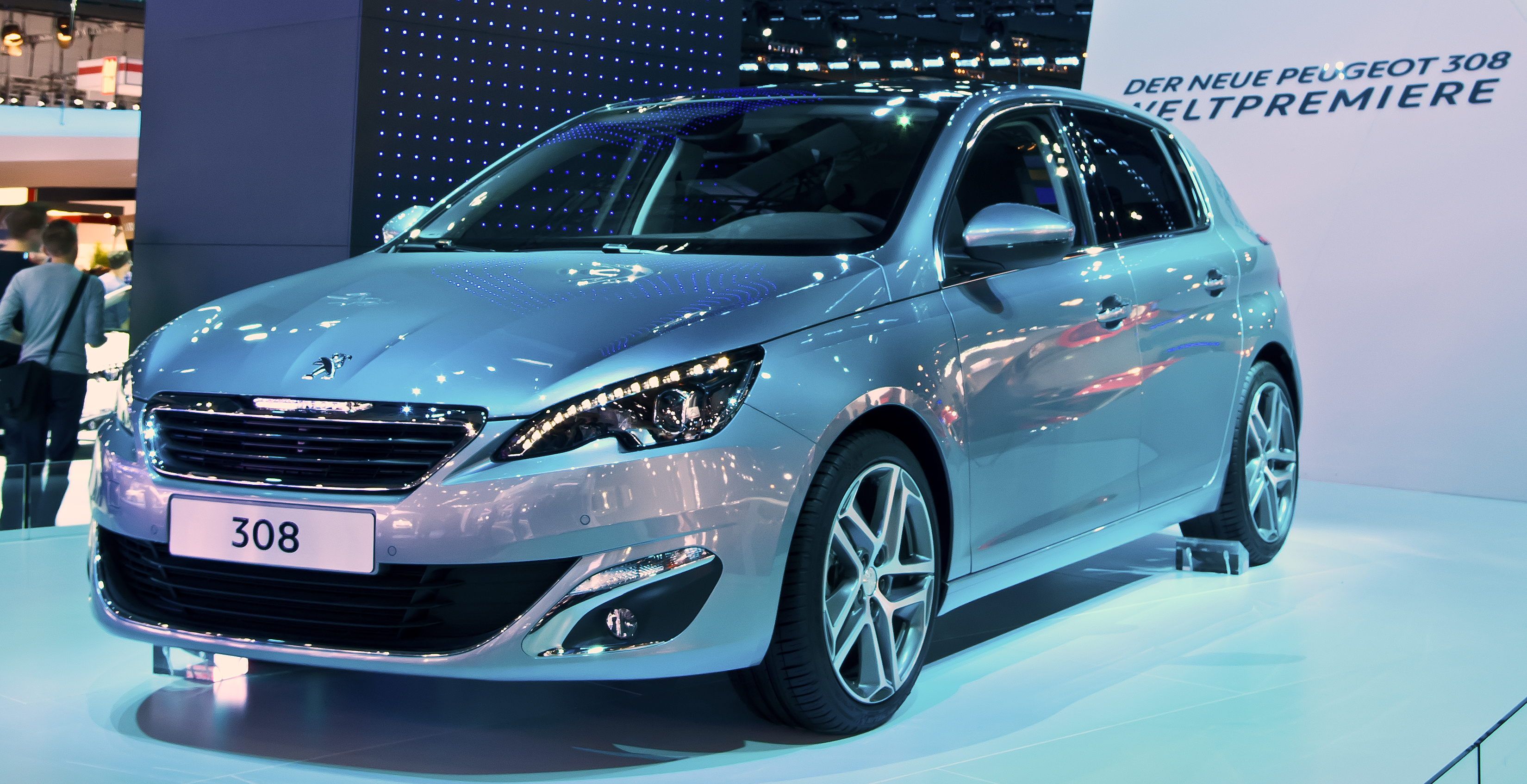 Peugeot 308 155 THP Allure (II)